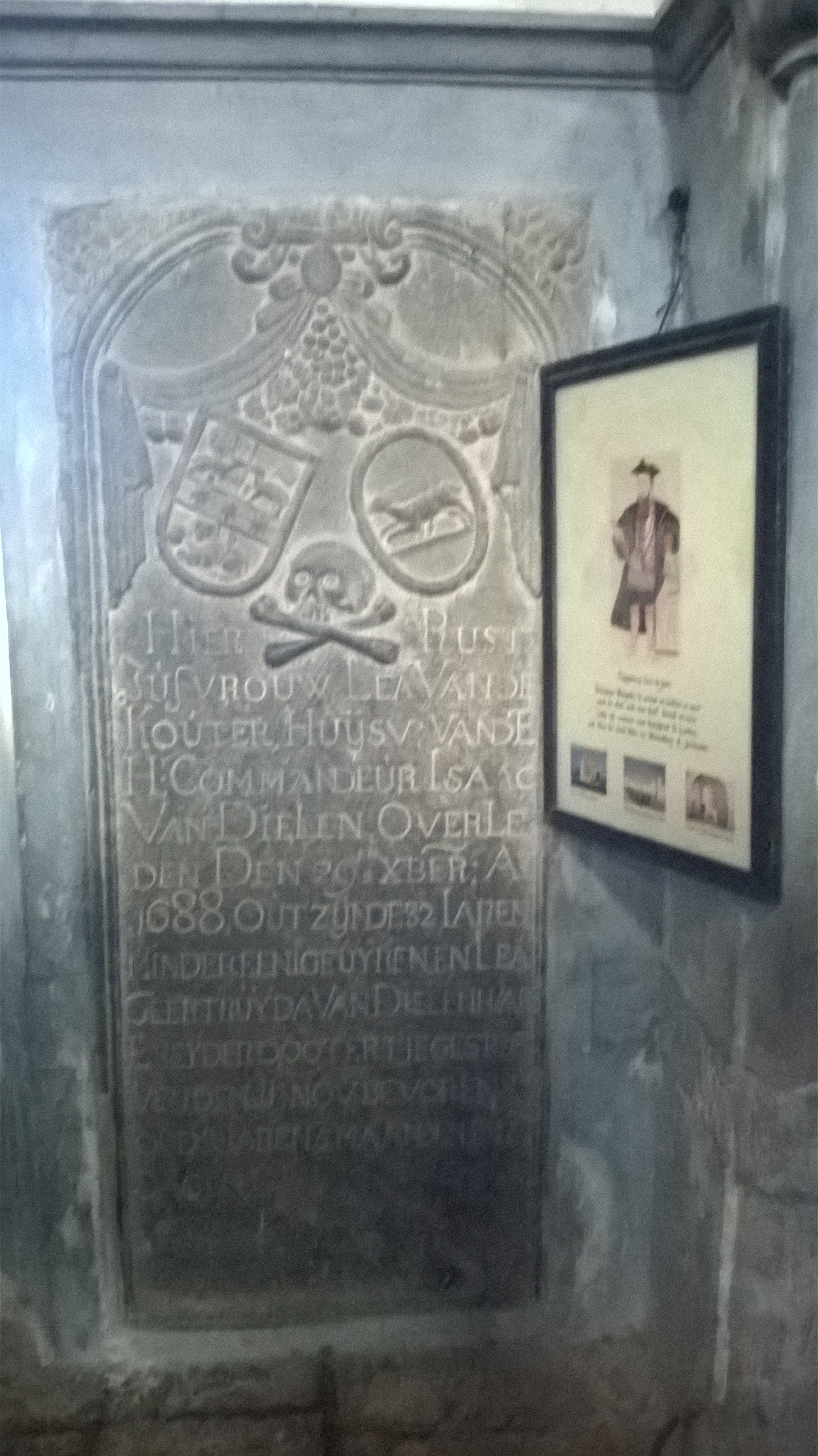 Plaque engraved near the tomb in St Francis Church. Reads "Here rests Miss Lea Van der Kouter, Housewife of the Mr. Commander Isaac Van Dielen, [who] died the 29th October anno 1688, at the age of 32 years less a few hours and Lea Geertuida Van Dielen both their daughter [who] died the previous November old three years and 5 months"